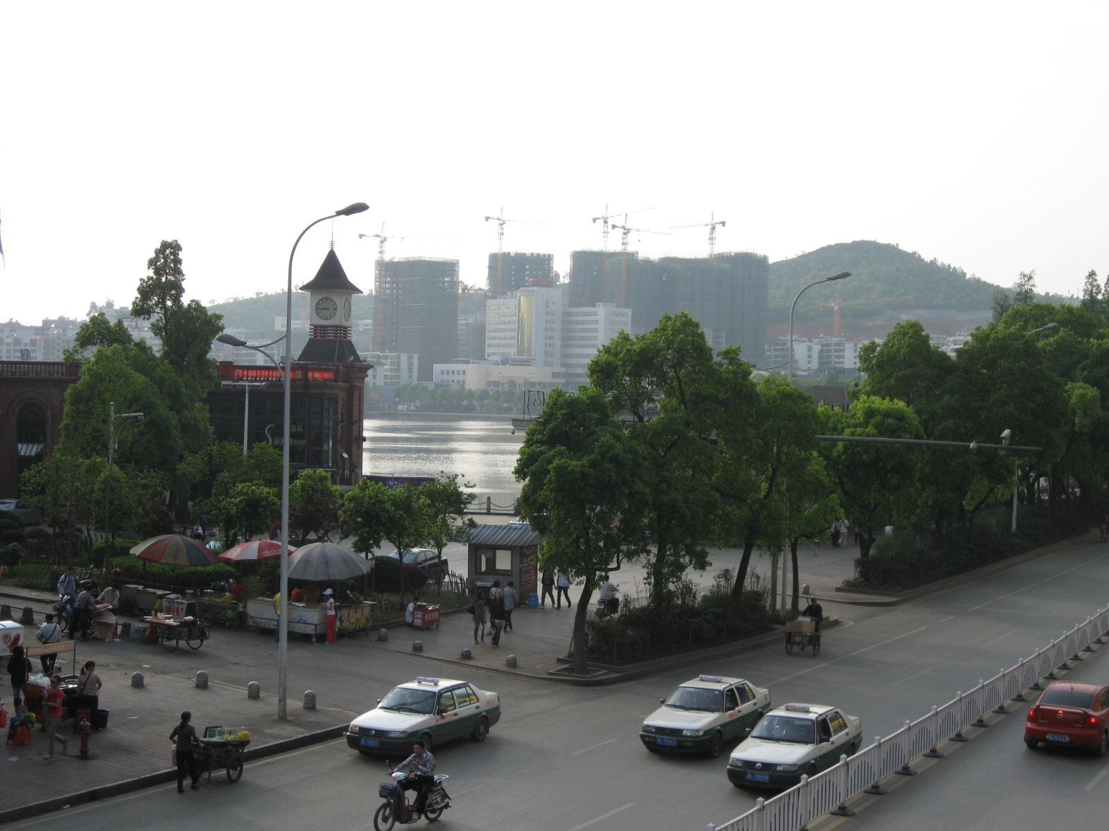 Beihu Park overview